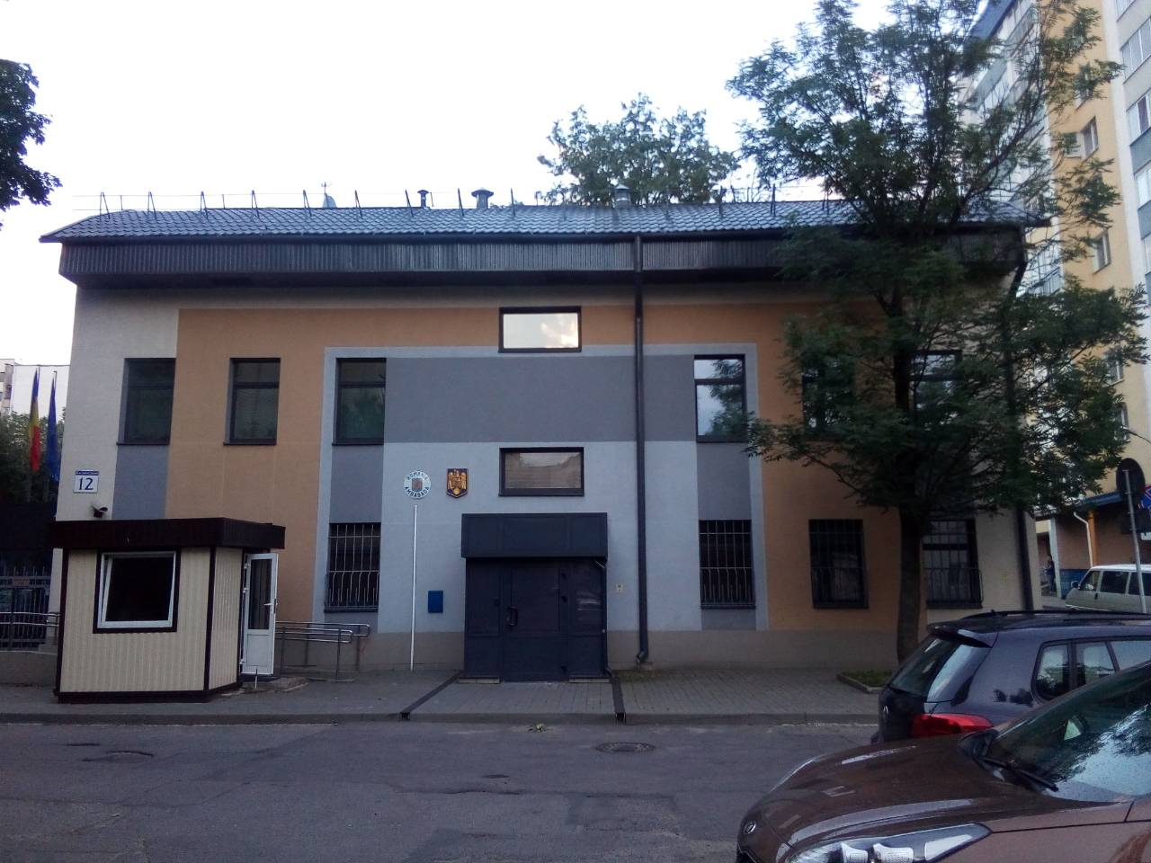 Embassy of Romania in Belarus is located in the Pieršamajski District of Minsk (18th of July, 2018)